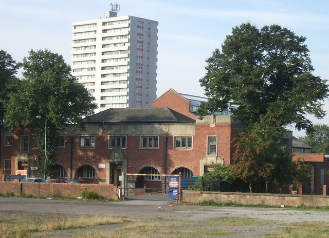 Heath Town Swimming Baths. The 1930s built swimming baths are soon to be replaced in winter of 2006 by a new leisure pool at Bentley Bridge.